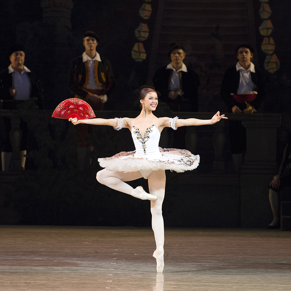 Ballet dancer Elena Evseeva, ballet Don Quixote